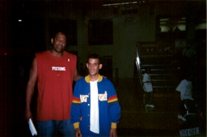 Former professional basketball player Earl Cureton (left) posing with a fan after a 2002 Summer Pro League (in which he coached) at The Pyramid in Long Beach, California.